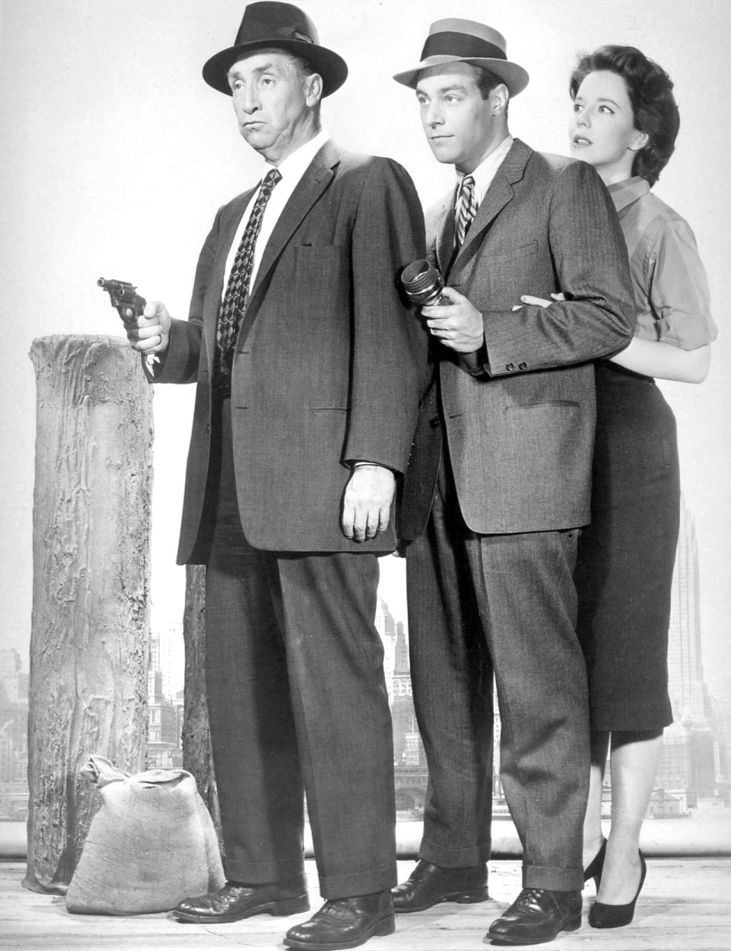 Photo of Horace McMahon, James Franciscus and Suzanne Storrs from the television series Naked City.